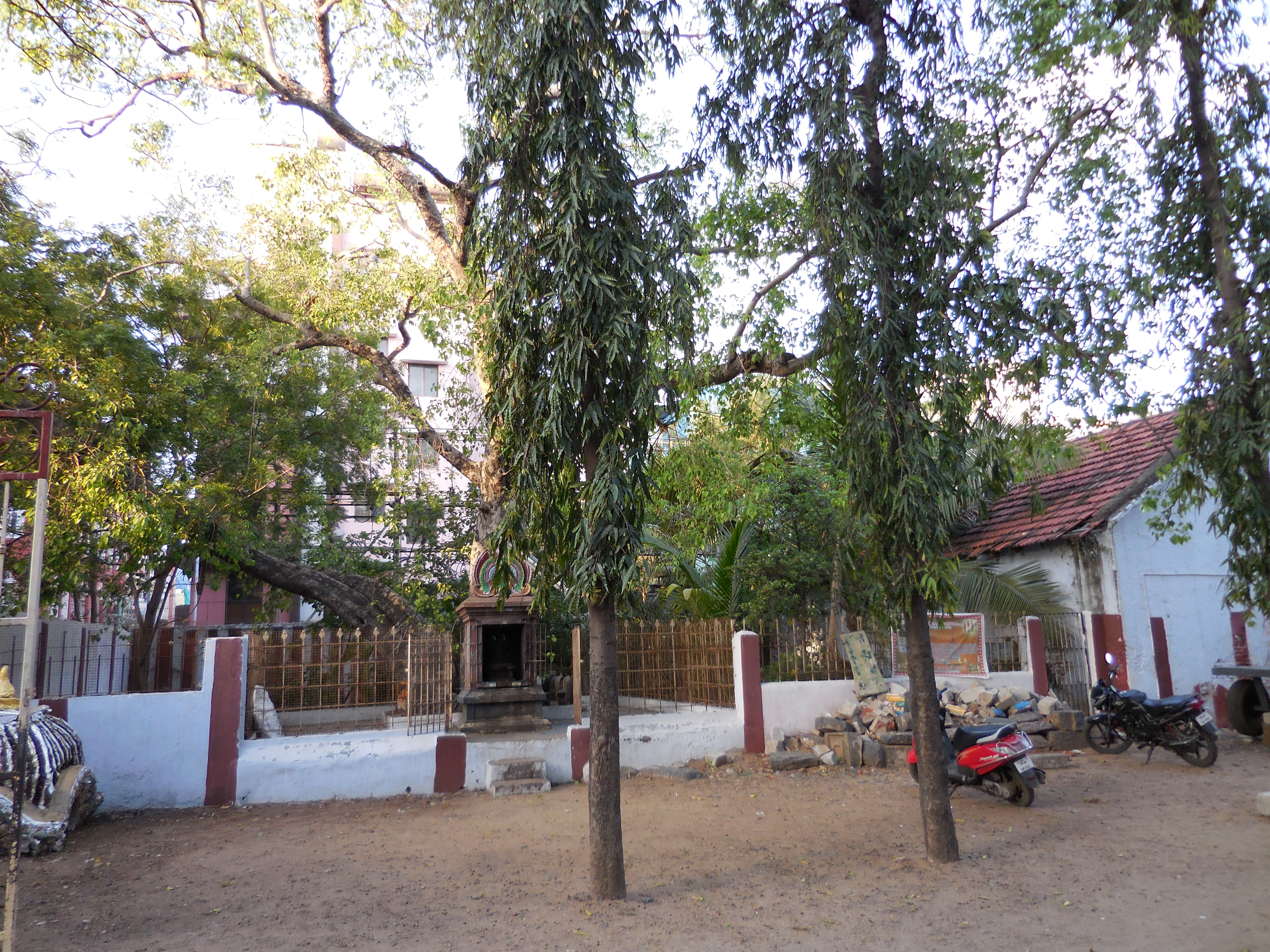 Pillaiyar Thoppu at Kachchaaleeshwar Koil, Chennai, taken on 5 July 2014, 6:35 am